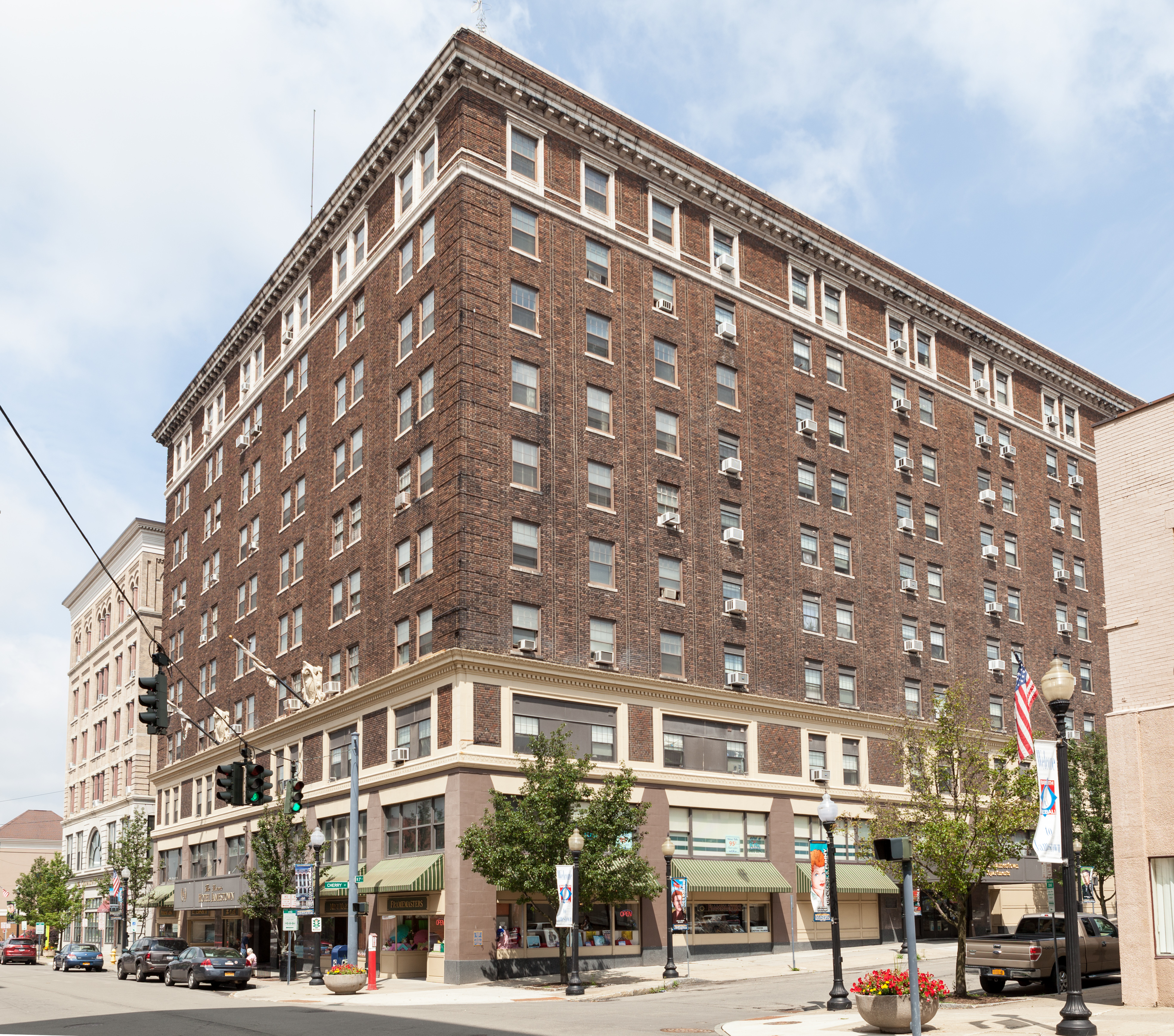 Hotel Jamestown, Jamestown, New York, in the Jamestown Downtown Historic District. Located on the corner of West 3rd and Cherry streets. Built in 1924.